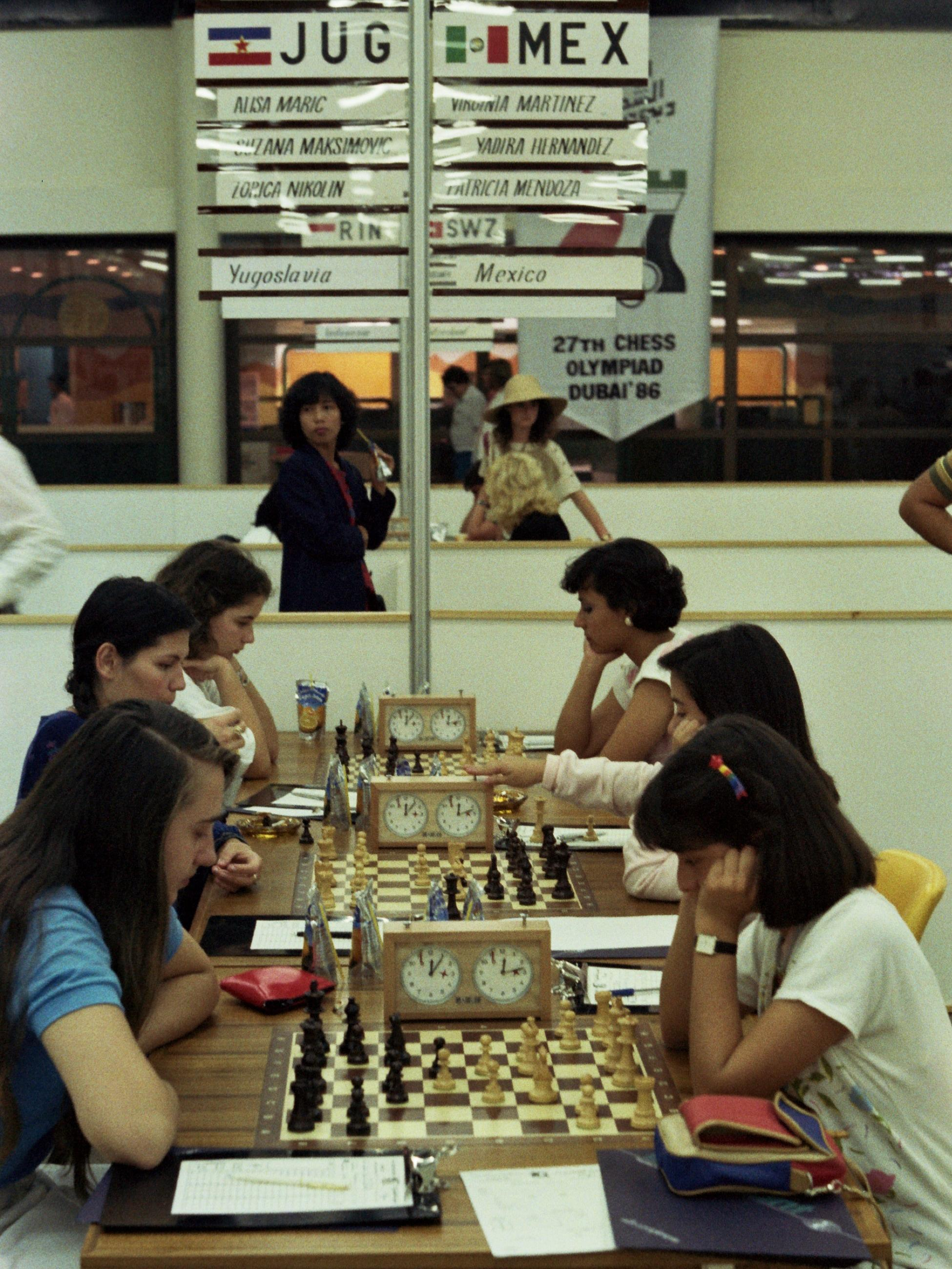 Alisa Marić, Suzana Maksimovic, Zorica Nikolin, Virginia Martinez, Yadira Hernandez, Patricia Mendoza, Chess Olympiad 1986 in Dubai, Photographer Gerhard Hund.